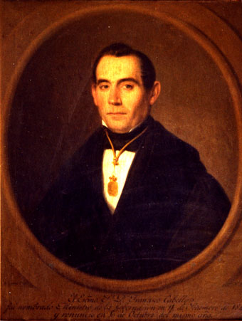 Spanish Politician Francisco Cabello Rubio